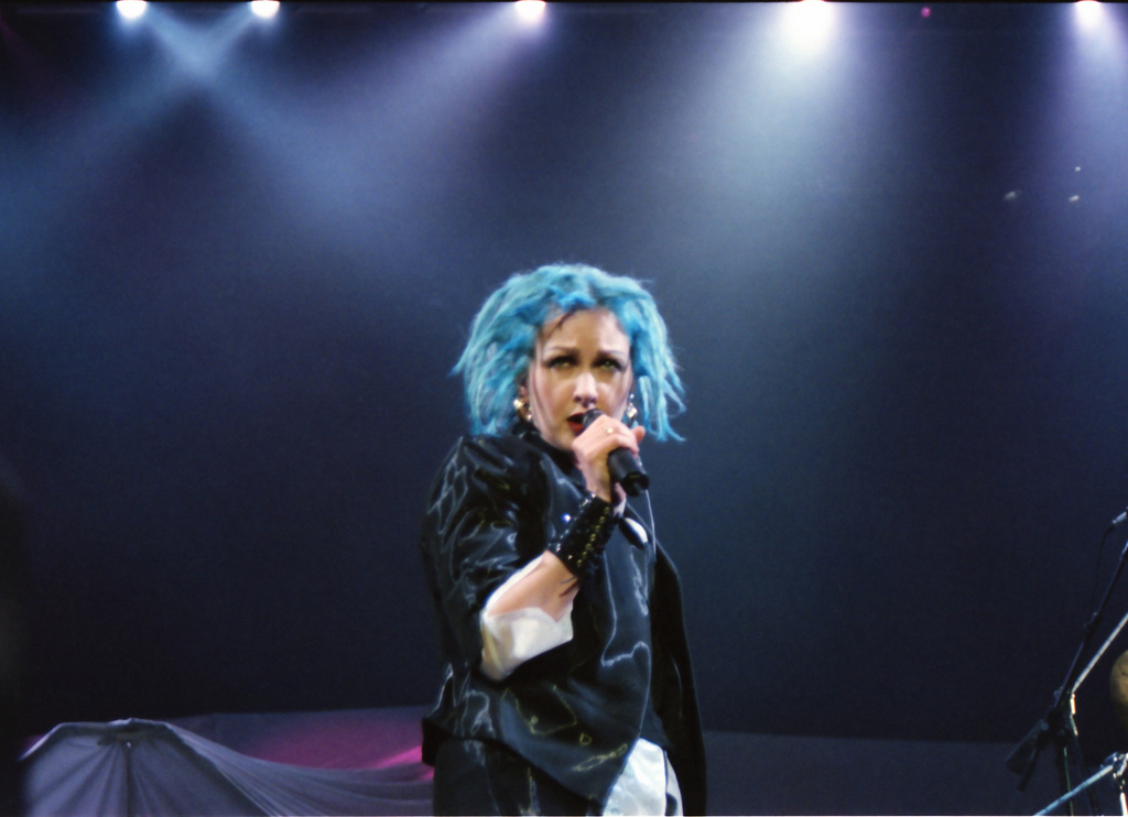 Cyndi Lauper with blue hair, during a concert at 2000.